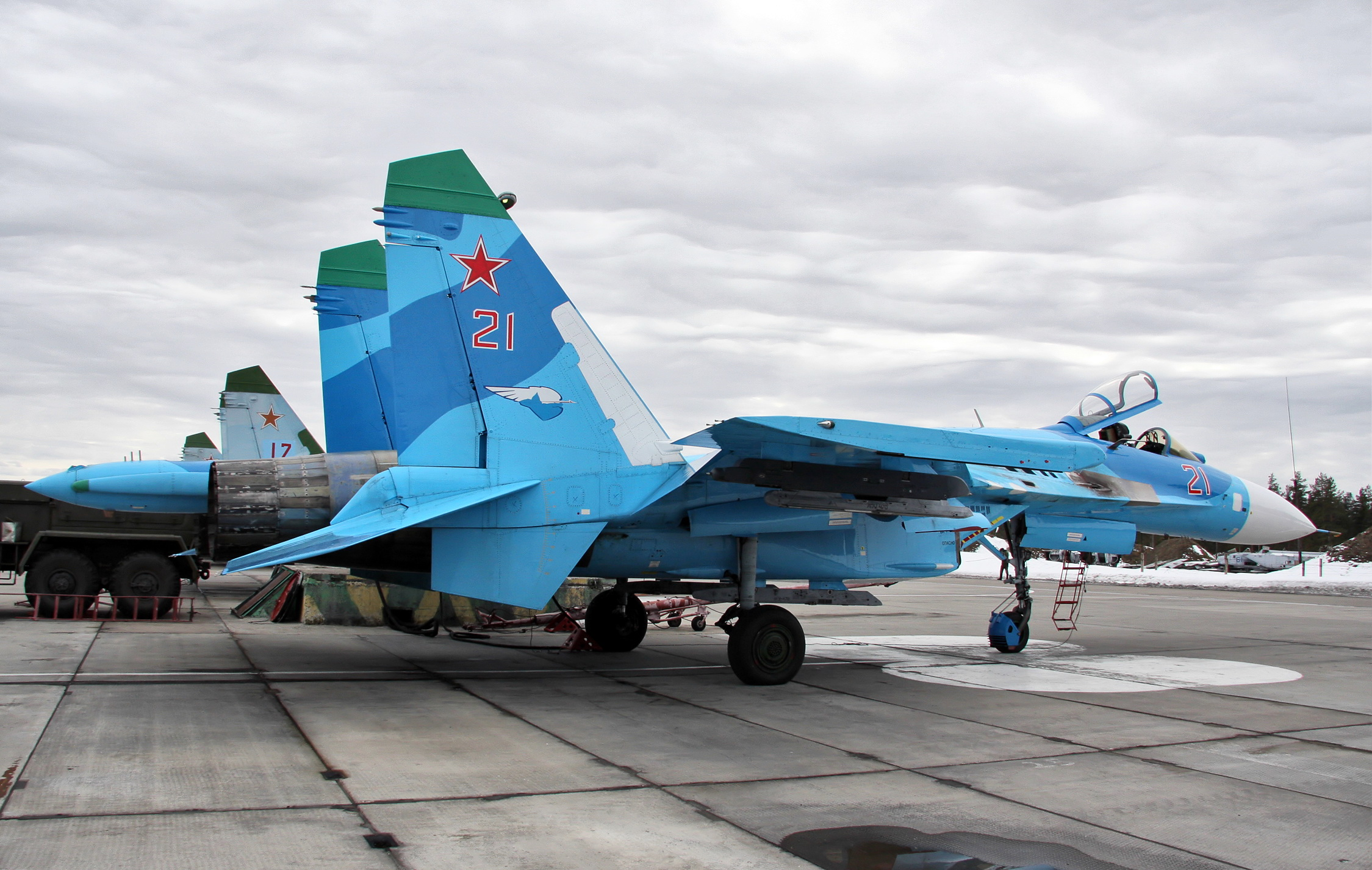 Su-27 21 Red